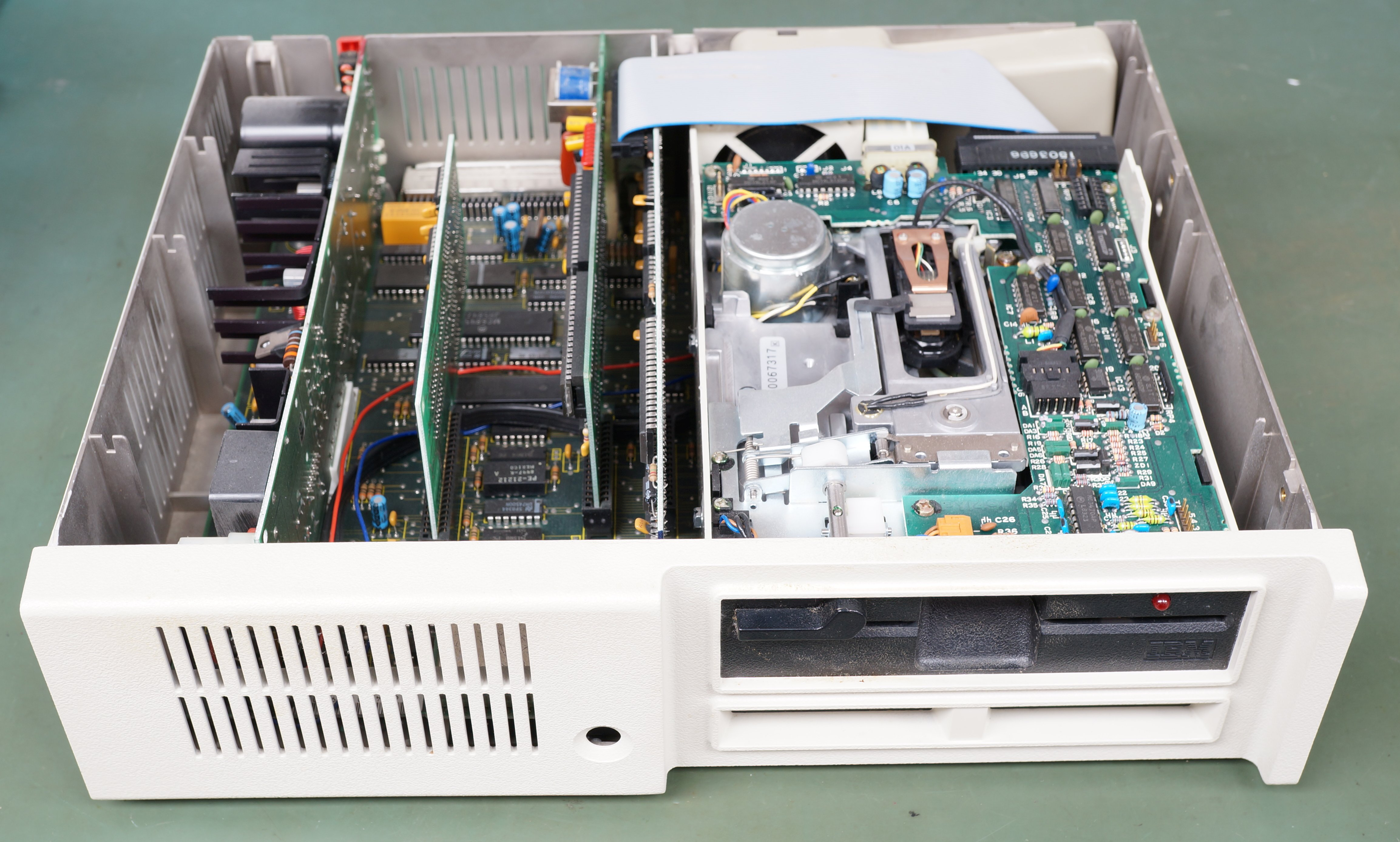 IBM PCB Jr Internal